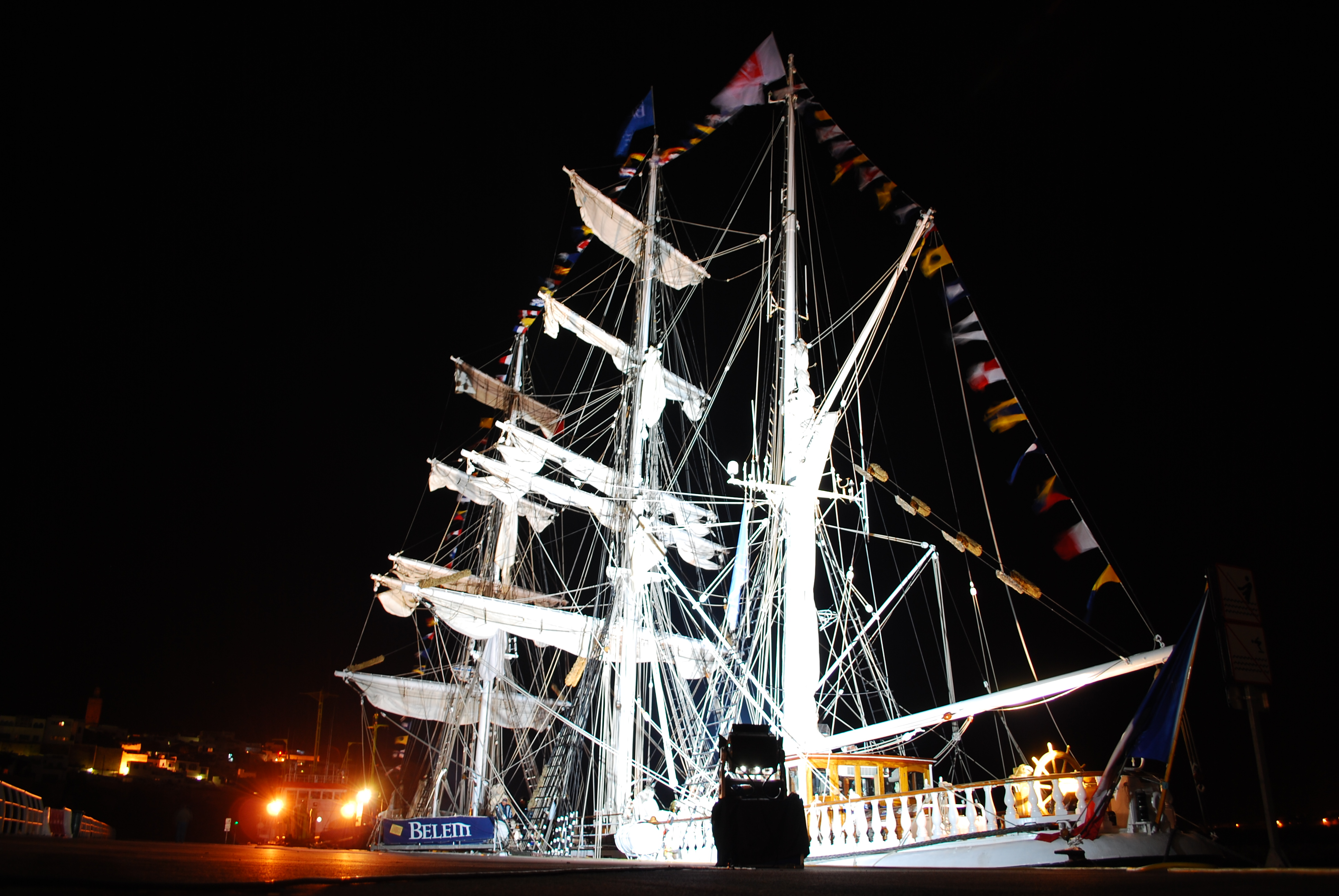 The Belem ship by night at Rabat for Mawazine Festival